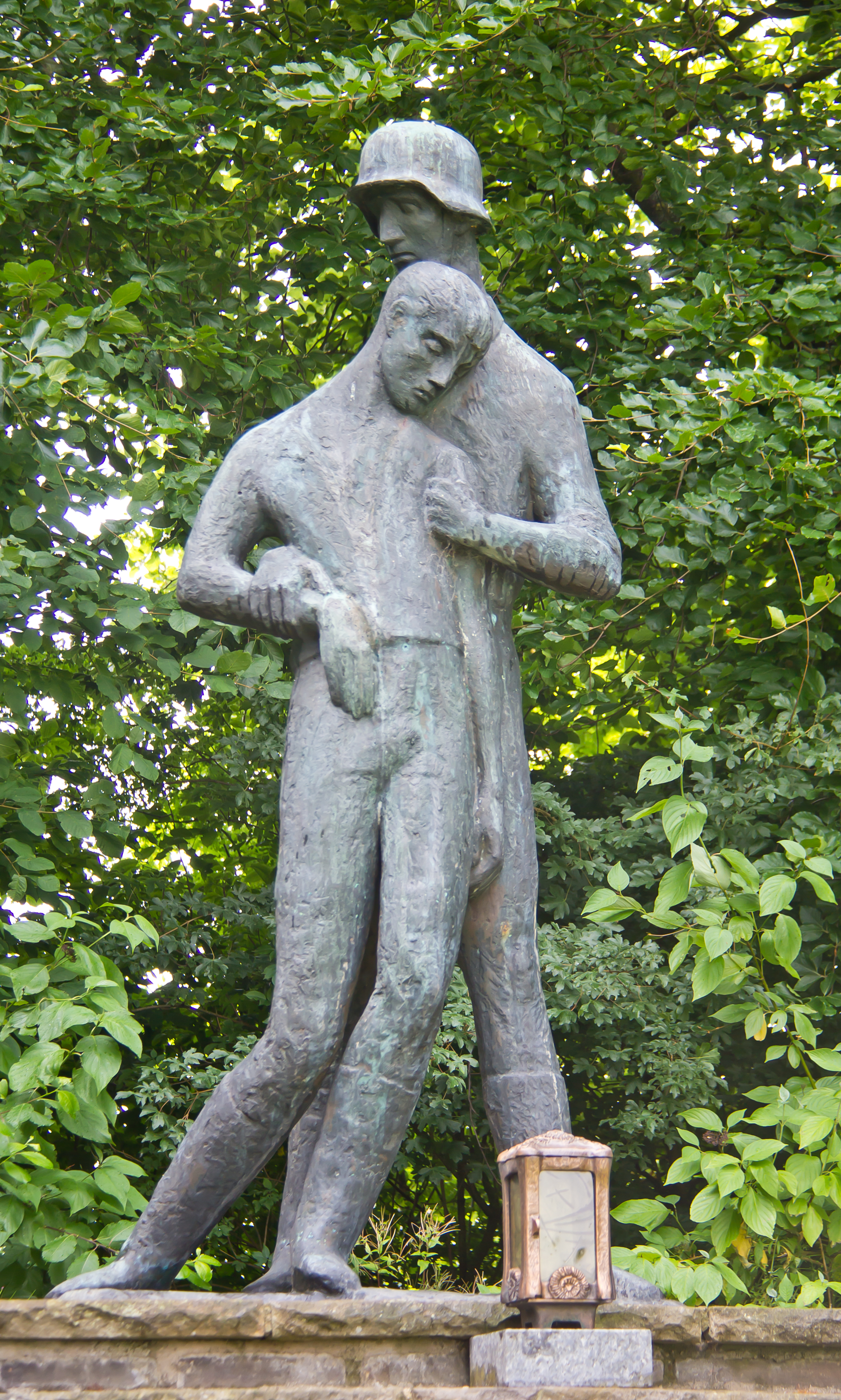 Memorial for the 116th Panzer Division, also known as the "Greyhound 'Windhund' Division", in Vossenack, Hürtengenwald, Germany